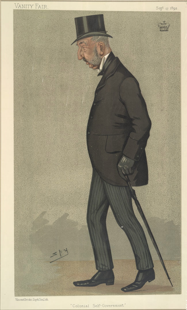 Statesmen No.600: Caricature of The Rt Hon Lord Norton PC KCMG. Caption reads: "Colonial Self-Government"